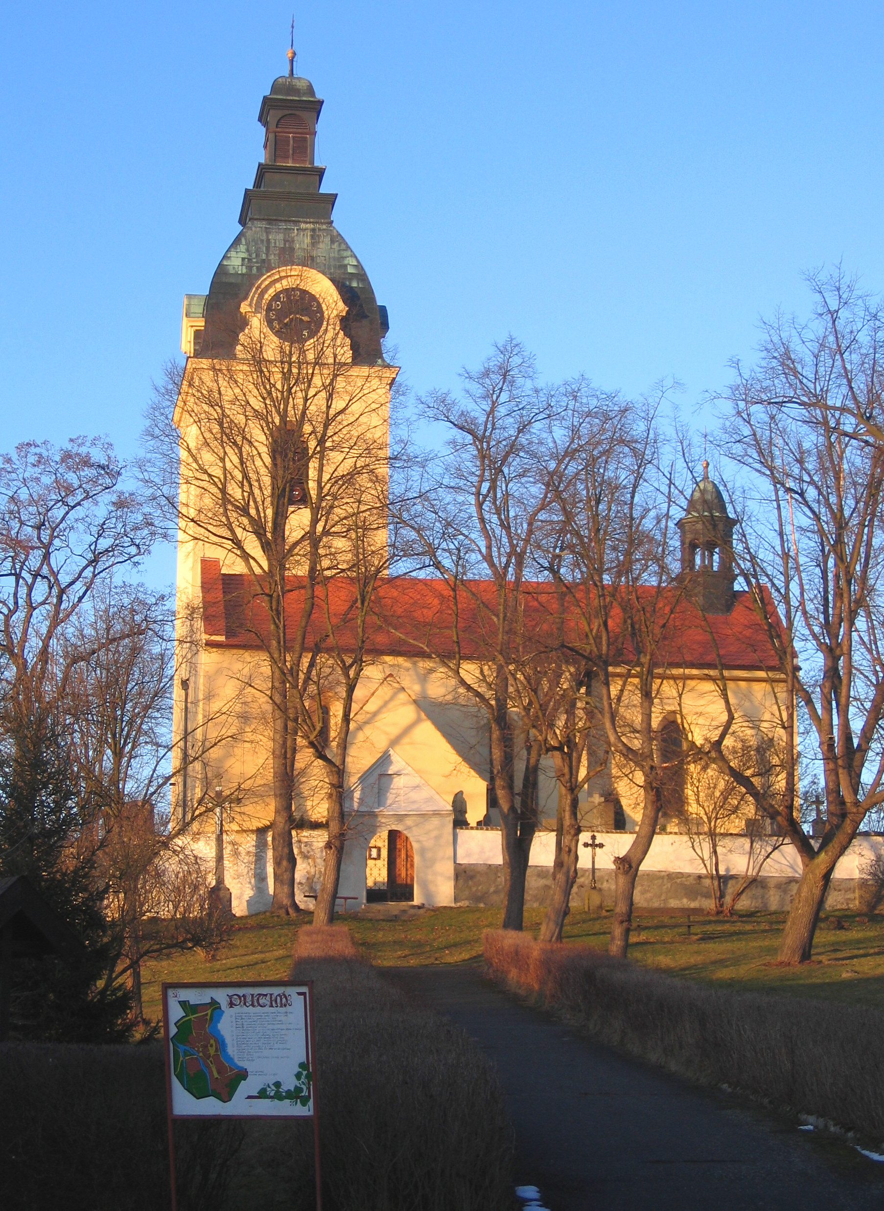 Putim (Písek district, Czech republic) - Church of Saint Lawrence